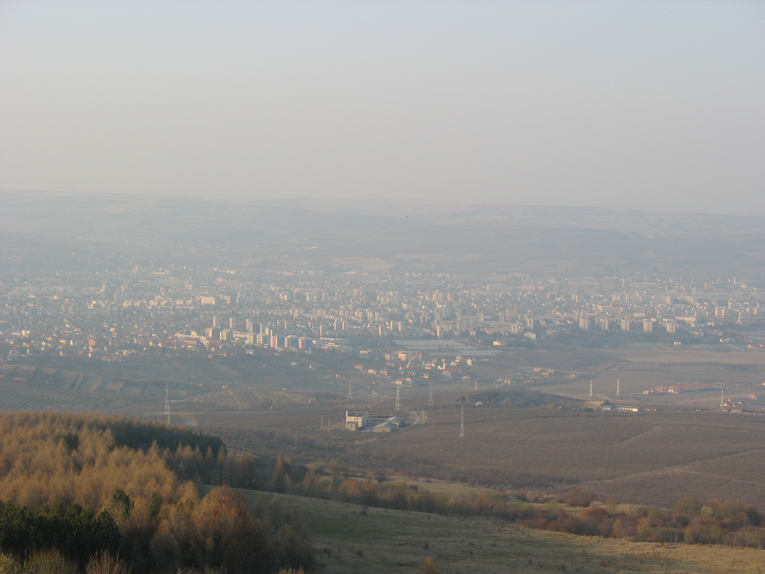 Photo of Cluj-Napoca from Feleac hill (Romania)